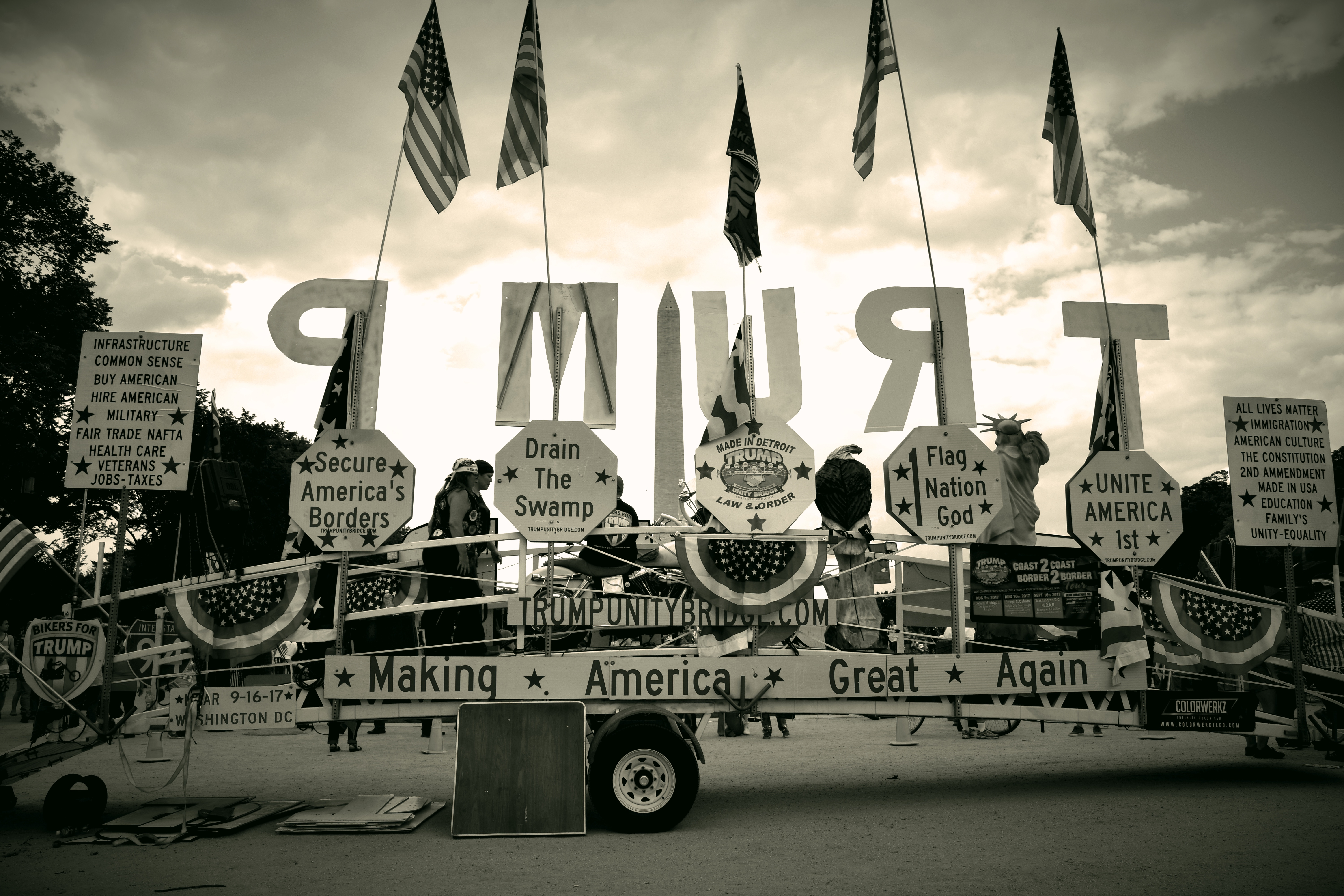 WASHINGTON DC, SEPT 16 2017: The "Mother of All Rallies" event in support of Donald Trump draws a small group to the National Mall.